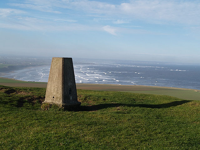 Warsett Hill trig. Trig point on Warsett Hill with views over Tees Bay to Redcar and Hartlepool